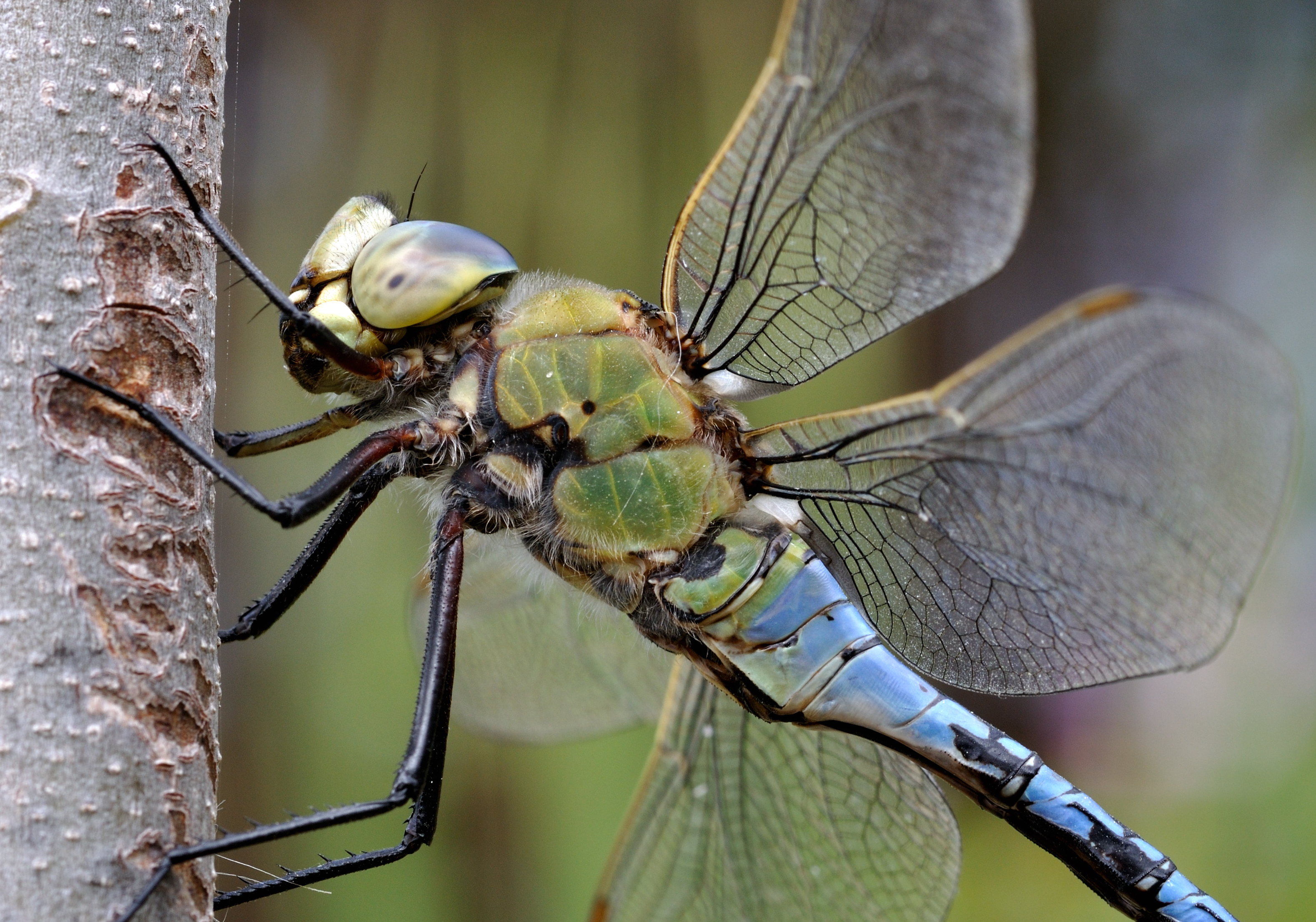 Closeup of a male Emperor Dragonfly (Anax imperator) in Puerto de la Cruz, Tenerife, Spain.